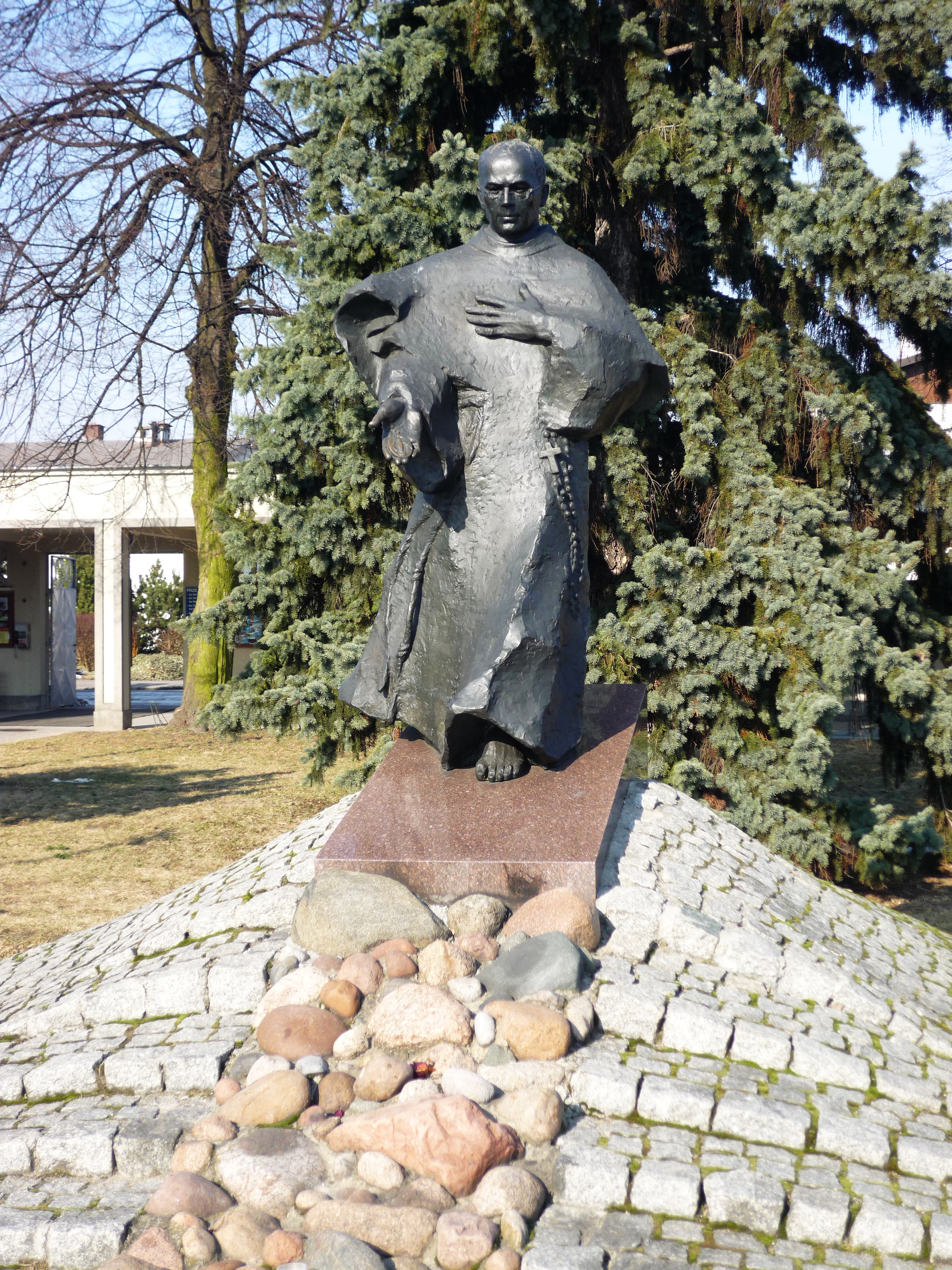 Basilica of Niepokalanów - the monument of St. Maximilian Kolbe in the front of the basilica